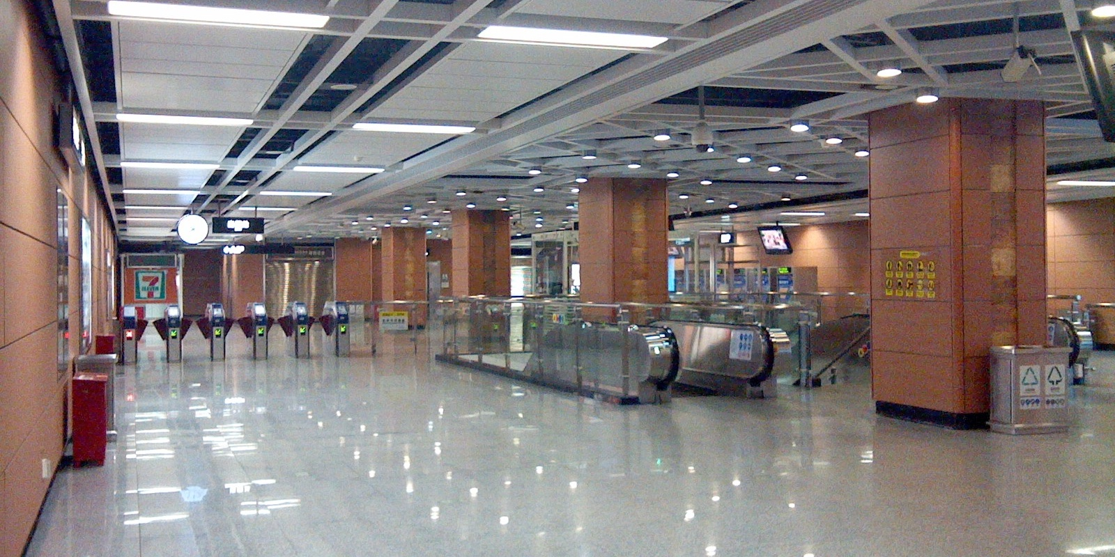 魁奇路车站站厅